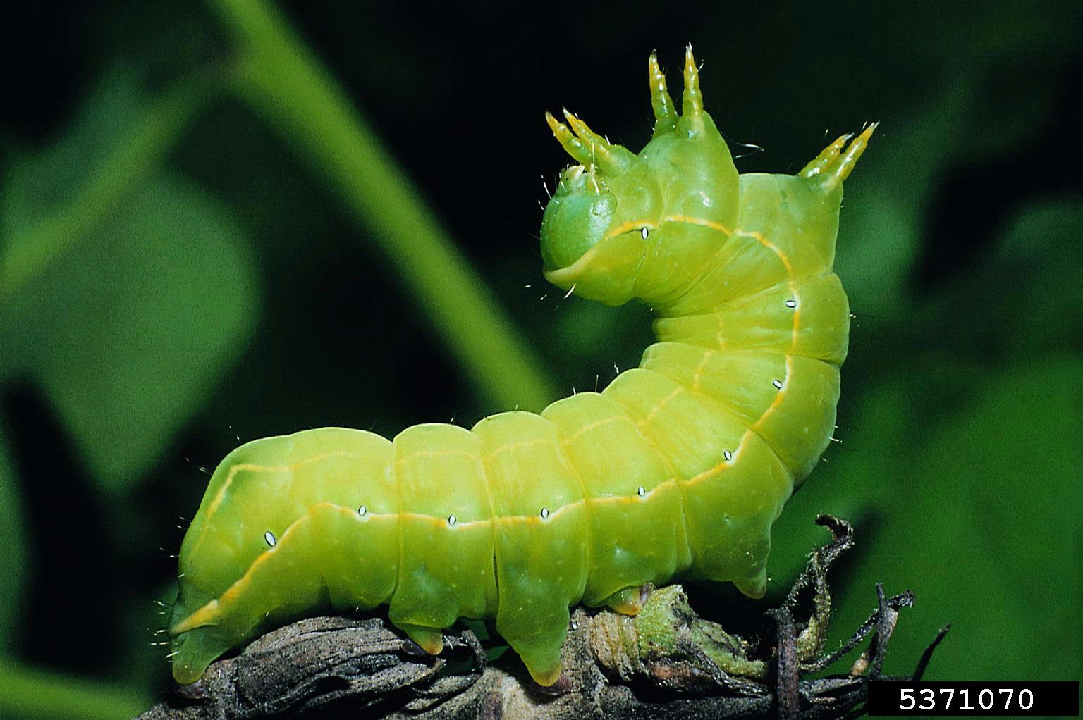 Asteroscopus sphinx (Hufnagel, 1766) syn.: Brachionycha sphinx